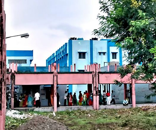 self clicked image of Trauma Care Centre